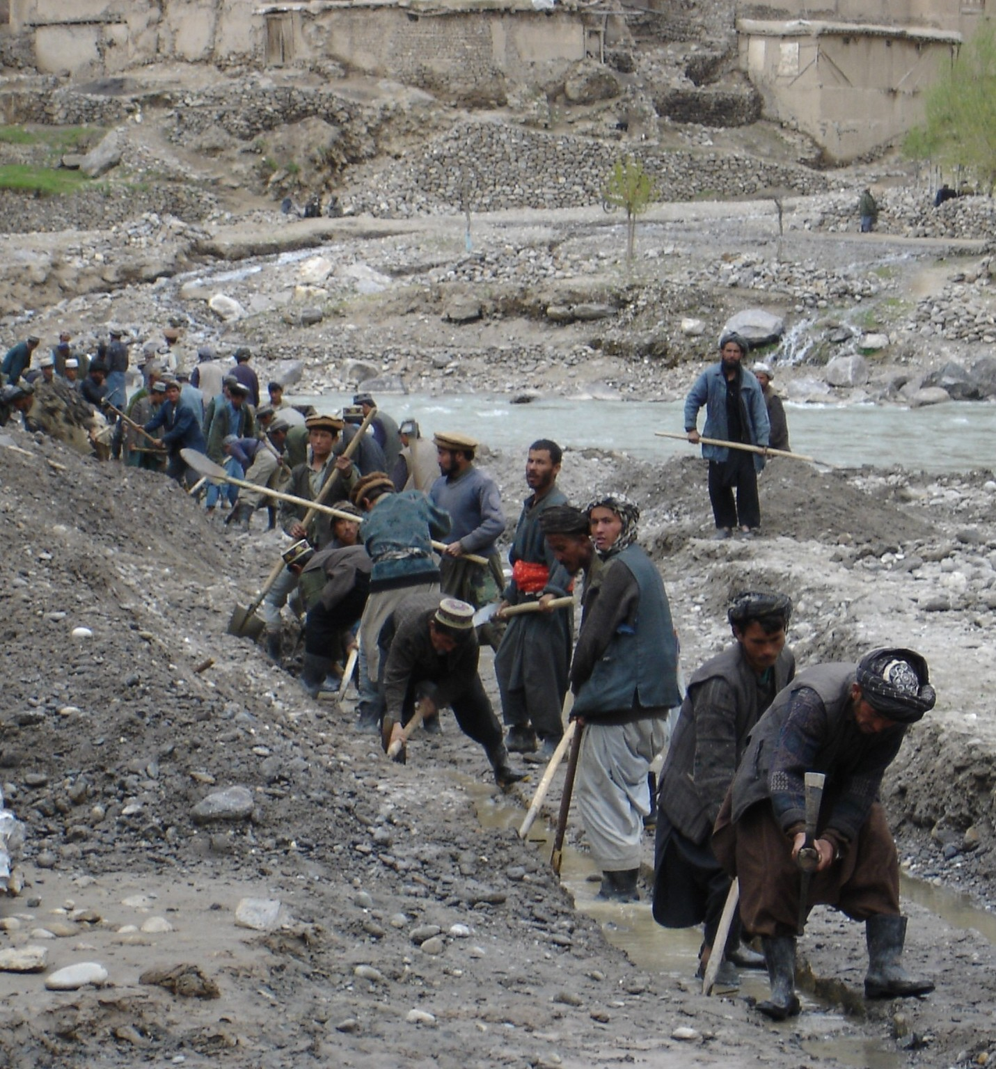 Farmers Dig Irrigation Canals, Afghanistan. Keywords: Afghanistan Irrigation Canals Farming Farmers Men Working Digging